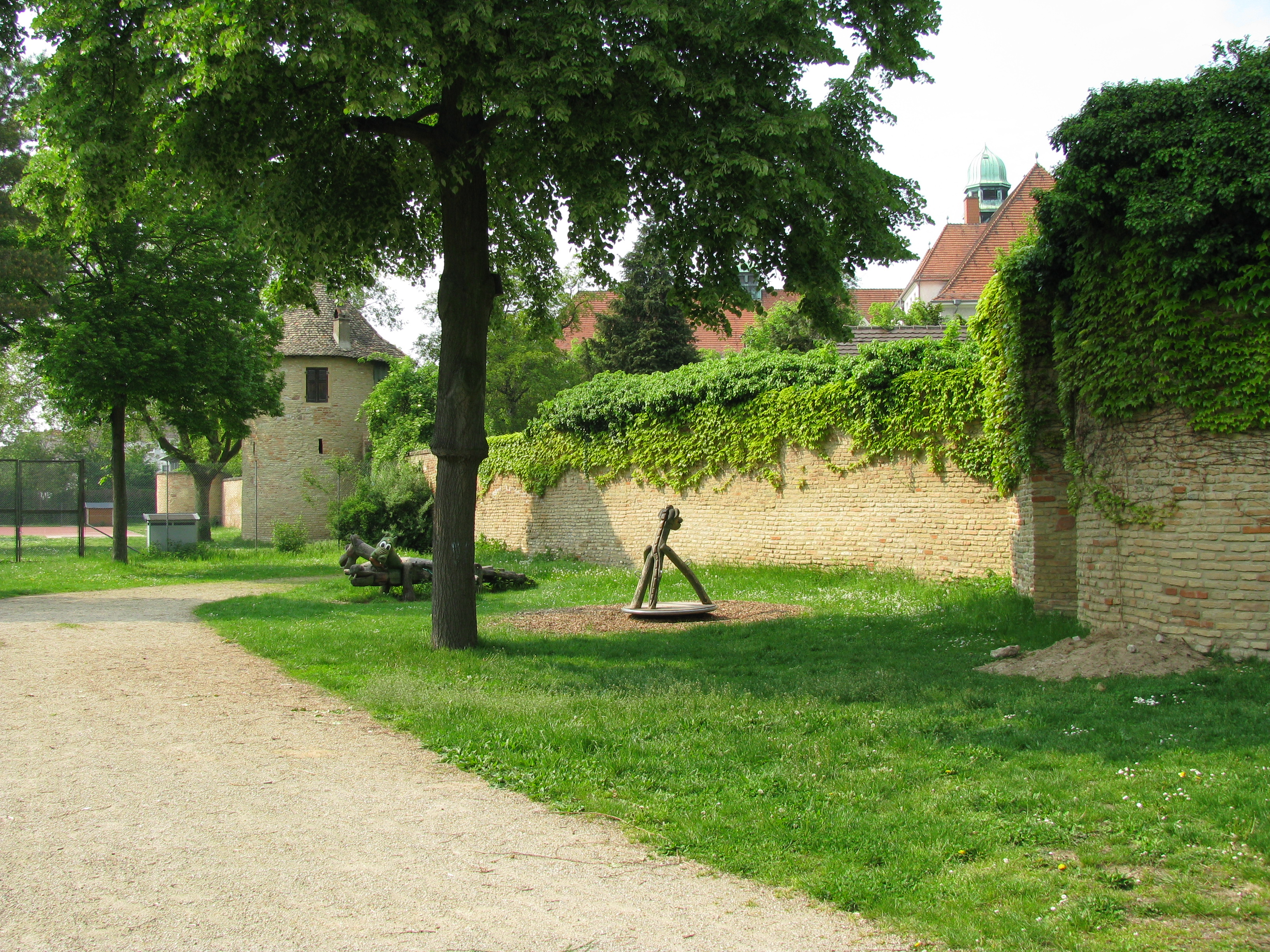 Speyer: Section of city wall with several towers along Hilgradstraße